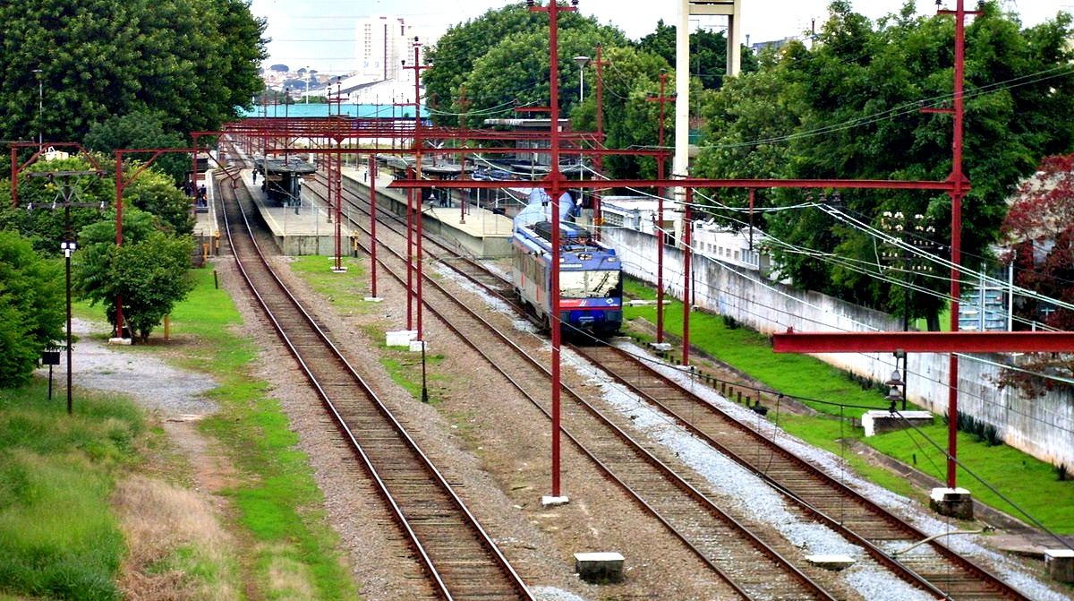 CPTM 2100 Series (Originally called CAF 440) leaving "São Caetano" station, in the metropolitan area of São Paulo, Brazil.